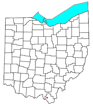 Locator map of the unincorporated community of Pedro in Lawrence County, Ohio, United States.